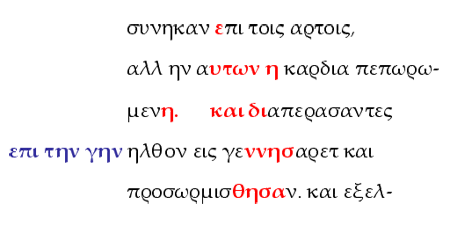 The Greek text of Mark 6.52–53 mounted so that it matches the fragment of 7Q5.